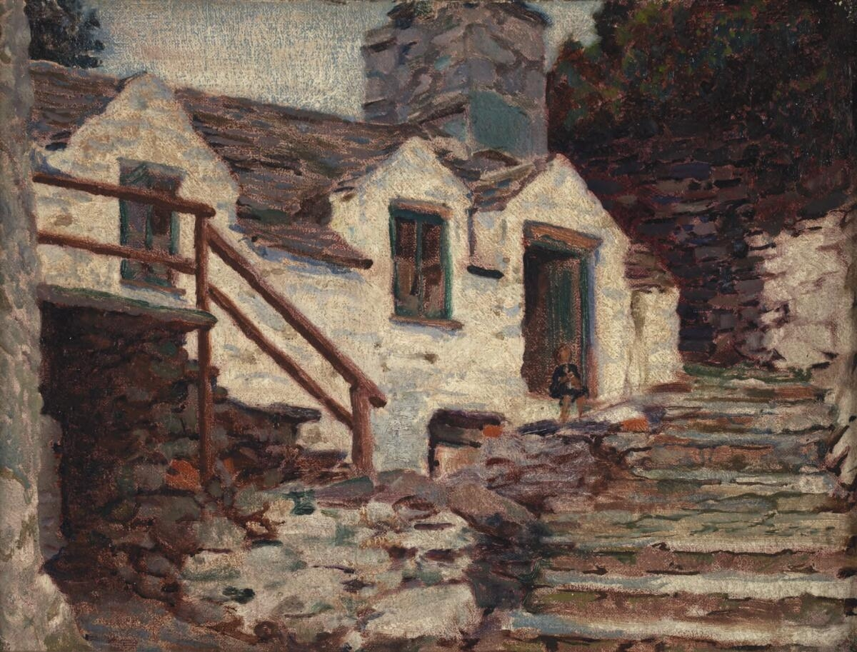 A painting from the Framed Works of Art collection at the National Library of wales.